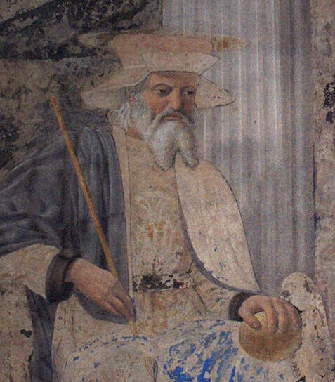 Saint Sigismund. Detail from: Sigismondo Pandolfo Malatesta praying in front of St. Sigismondo (by Piero della Francesca, 1451); Relic Chapel of the Malatesta Temple, Rimini, Italy